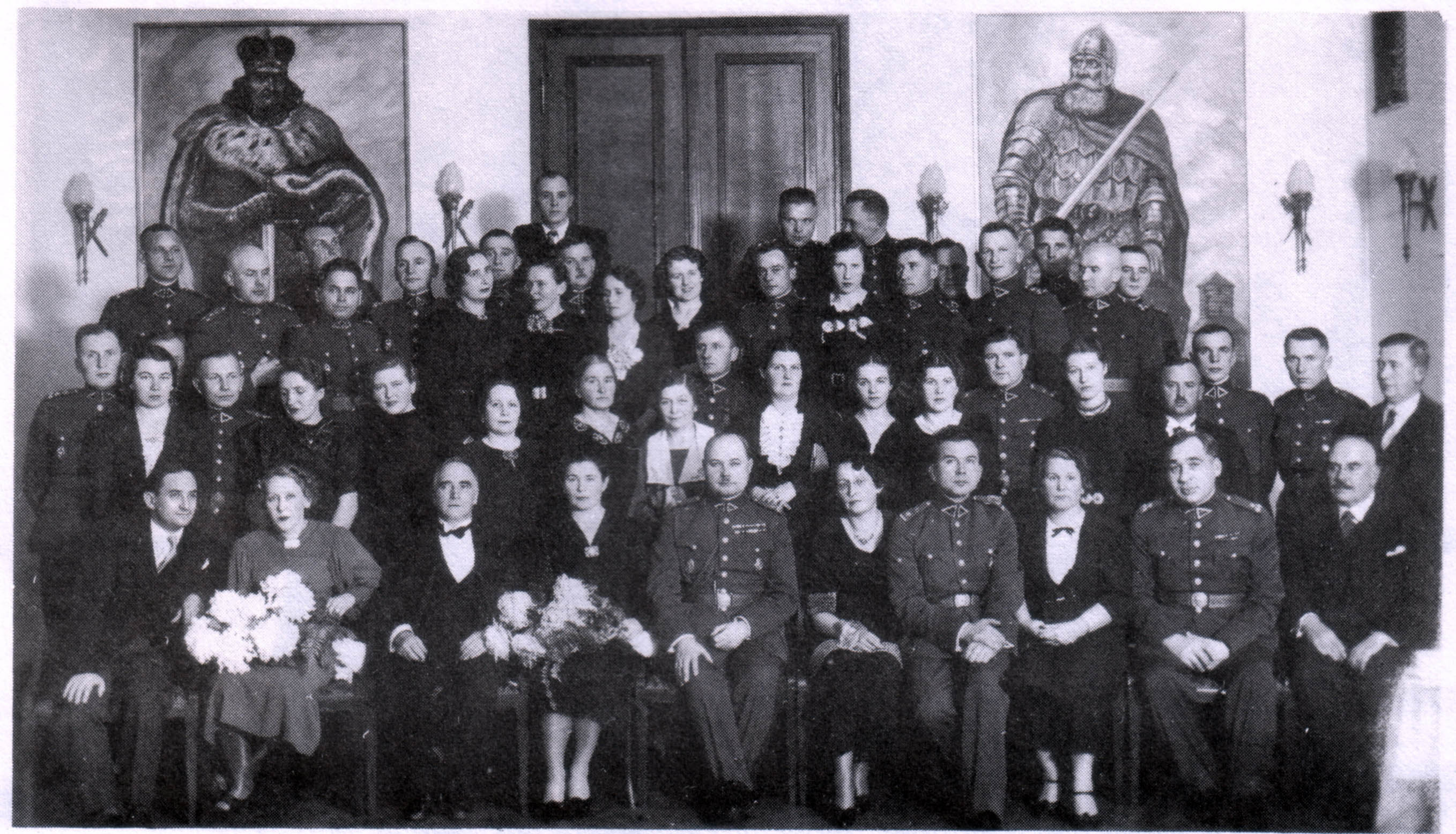 Lithuanian Army Topography Department officers and civil servants in Kaunas Garrison Officers' Club Building.